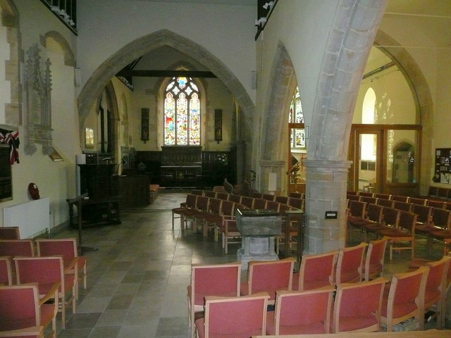 St. Mary's interior